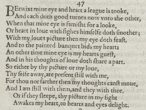 Sonnet 47 in the 1609 Quarto of Shakespeare's sonnets